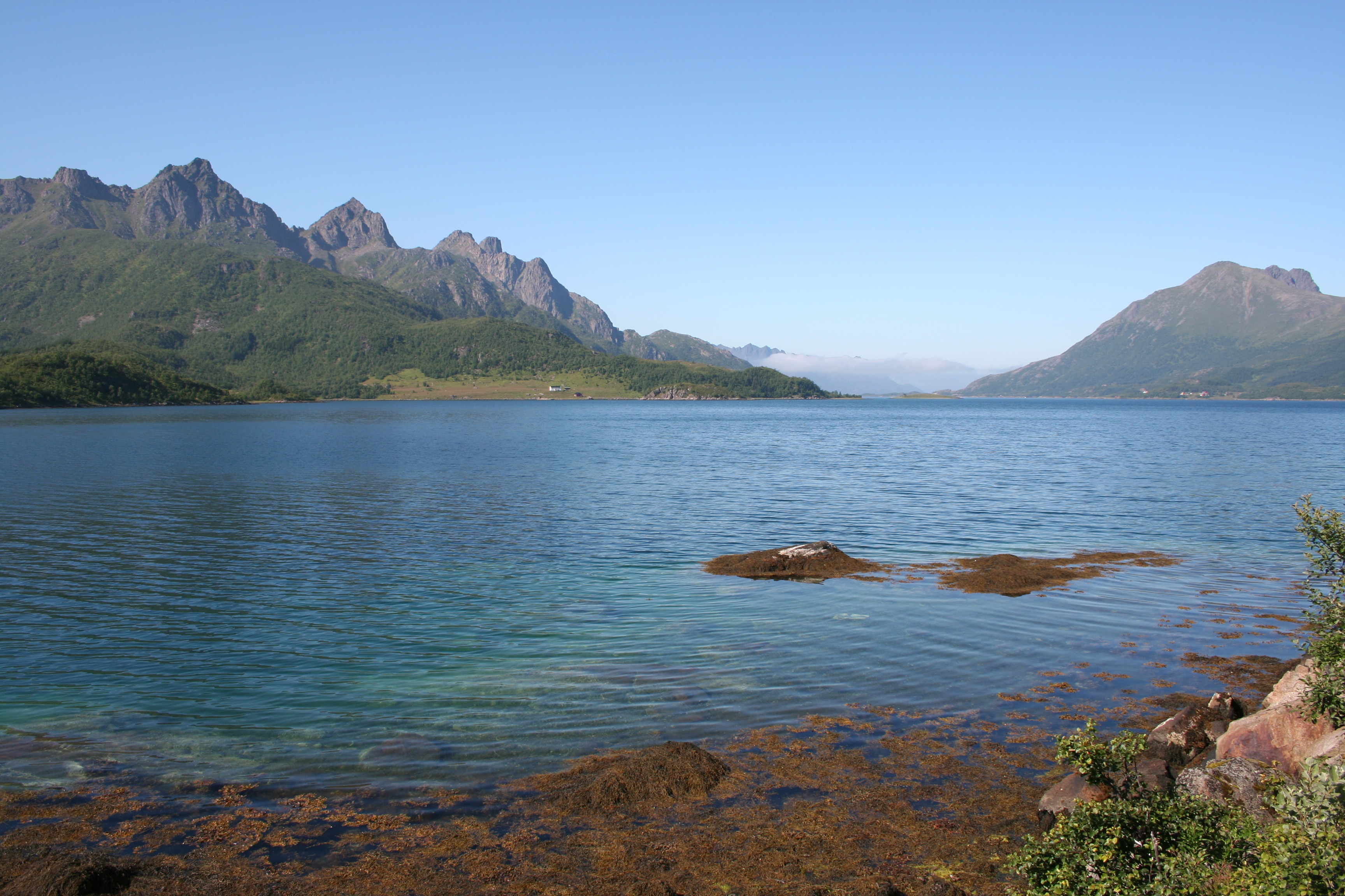 Steinlandsfjorden, Norway. This picture was taken by me on 31 July 2006.